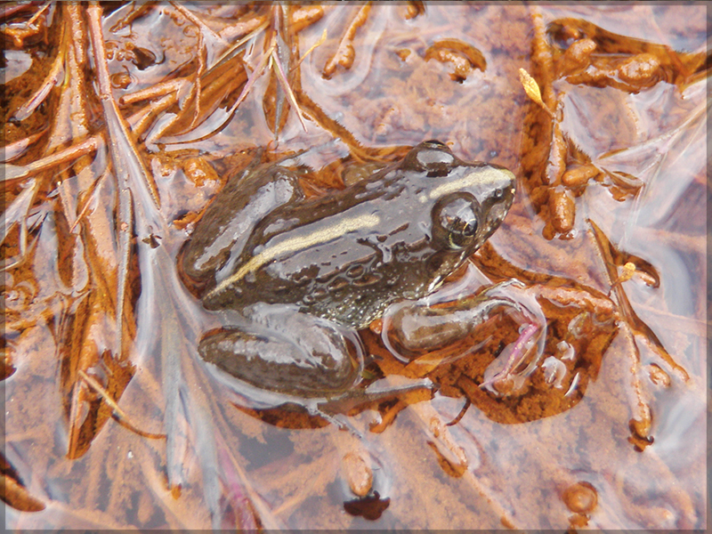 Zakerana greenii (Montane Frog - ලංකා කඳුකර මැඩියා) Endemic to Sri Lanka - ශ්‍රී ලංකාවට ආවේණික විශේෂයකි